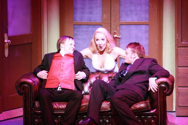 Max Bialystock, Leo Bloom and Ulla from the UK Amateur Premiere of Mel Brooks Producers as staged by Act Too Group in September 2008.